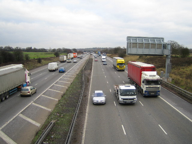 M6 traffic. Looking east from the farm track bridge and the Heart of England Way. The traffic noise was very loud.